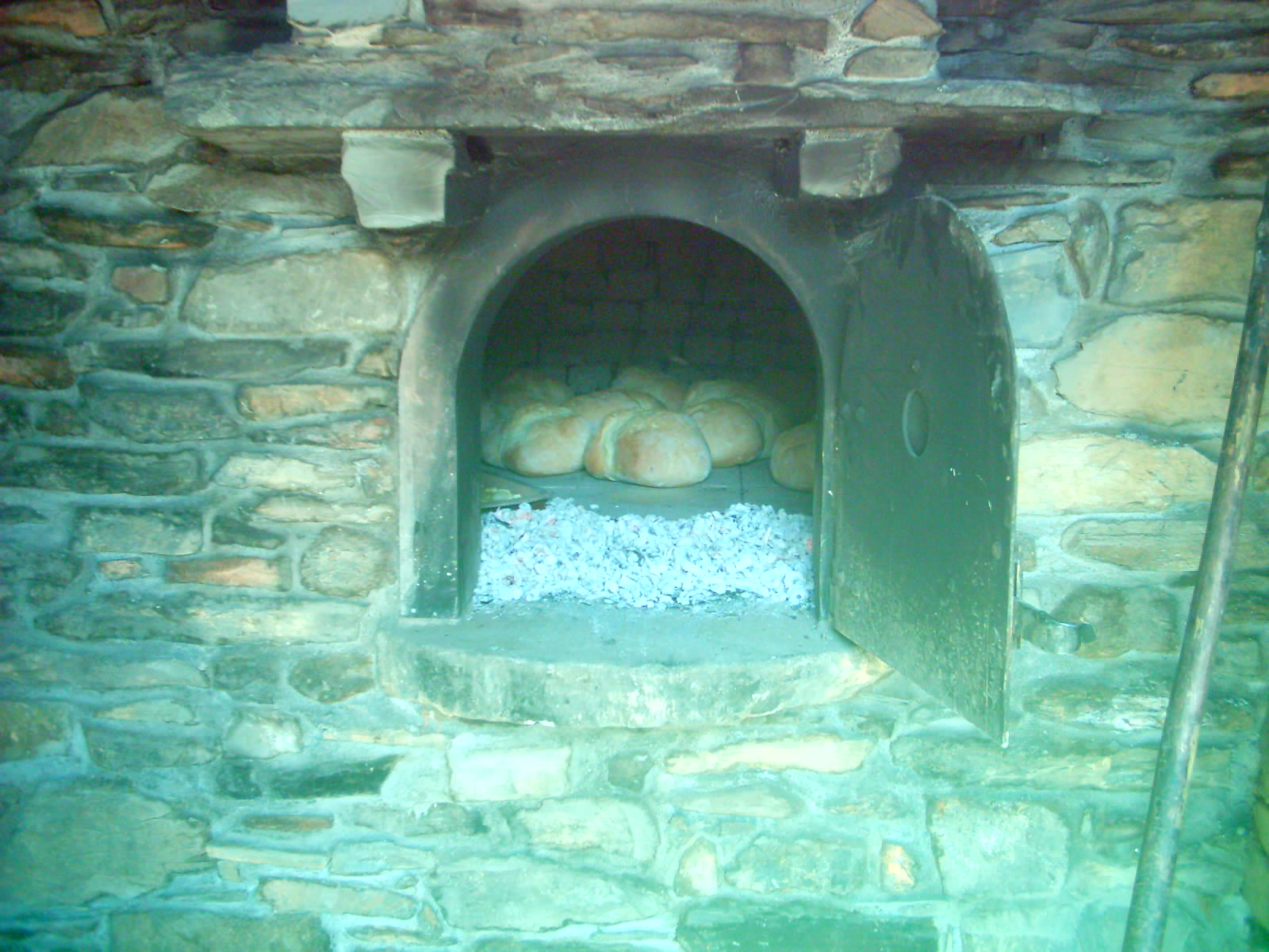 Figueira,Communitarian oven.